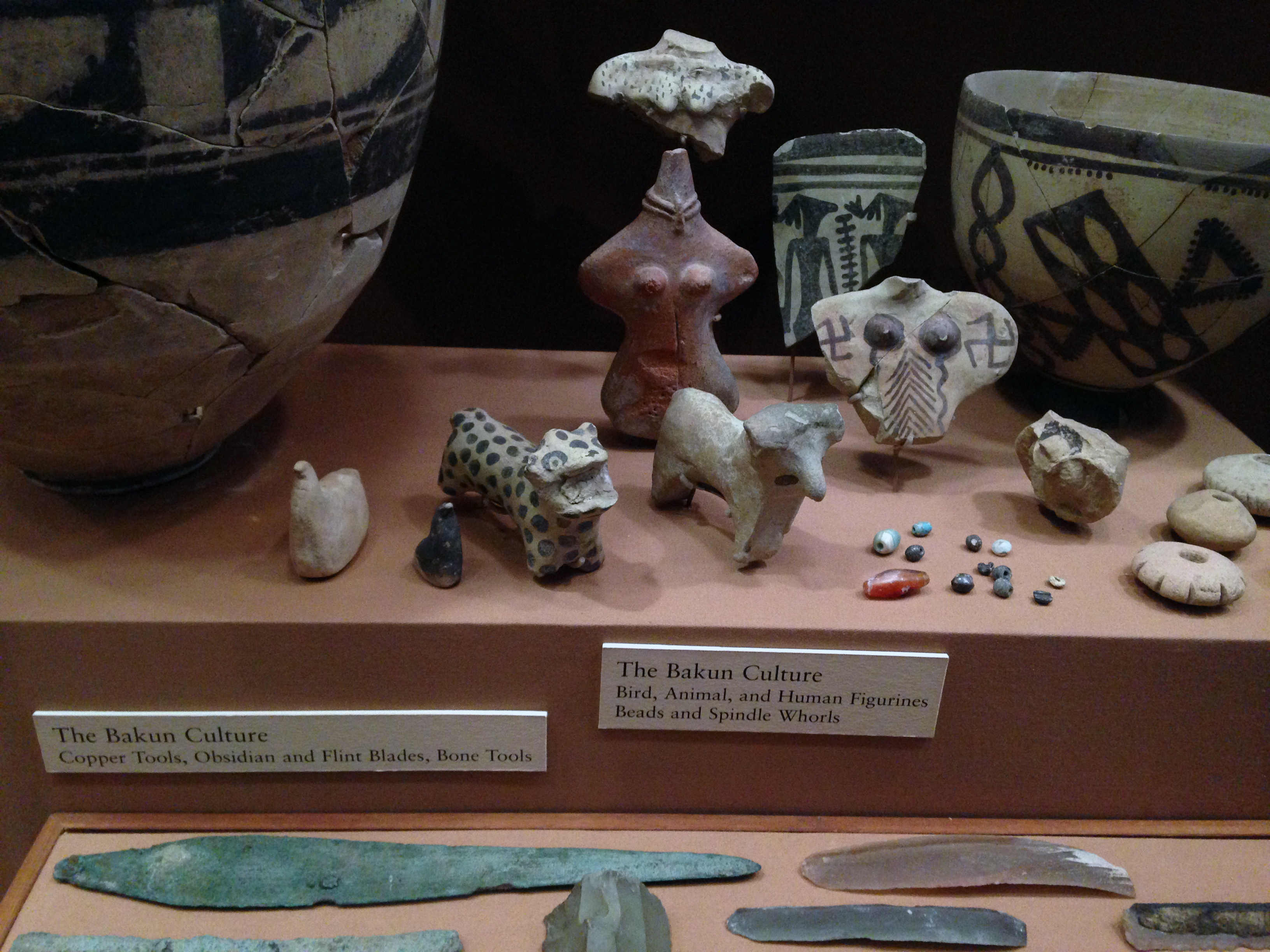 University of Chicago Oriental Institute, Prehistoric Cultural Development of southeastern Iran collection, Chogha Mish (6800-4200 BCE), Tall-i Bakun (4200-3800 BCE)